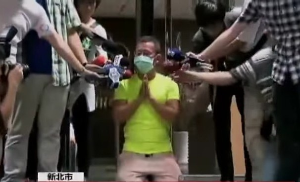 On 27 June 2015, a "color powder party" held inside a drained swimming pool at a water park at night in Taiwan caught a fire.